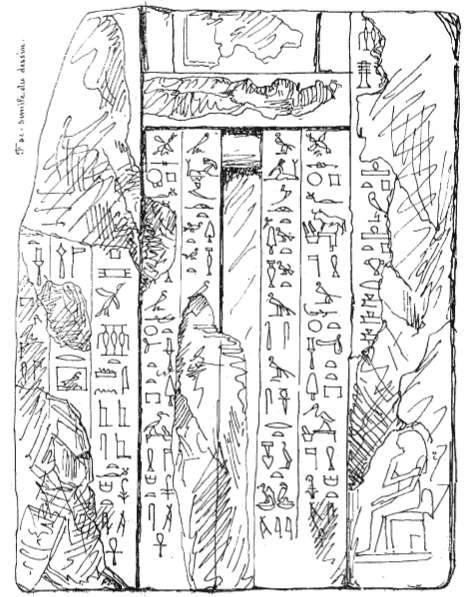 Stela of Meresankh IV from her tomb in Saqqara. From Mariette's Mastabas